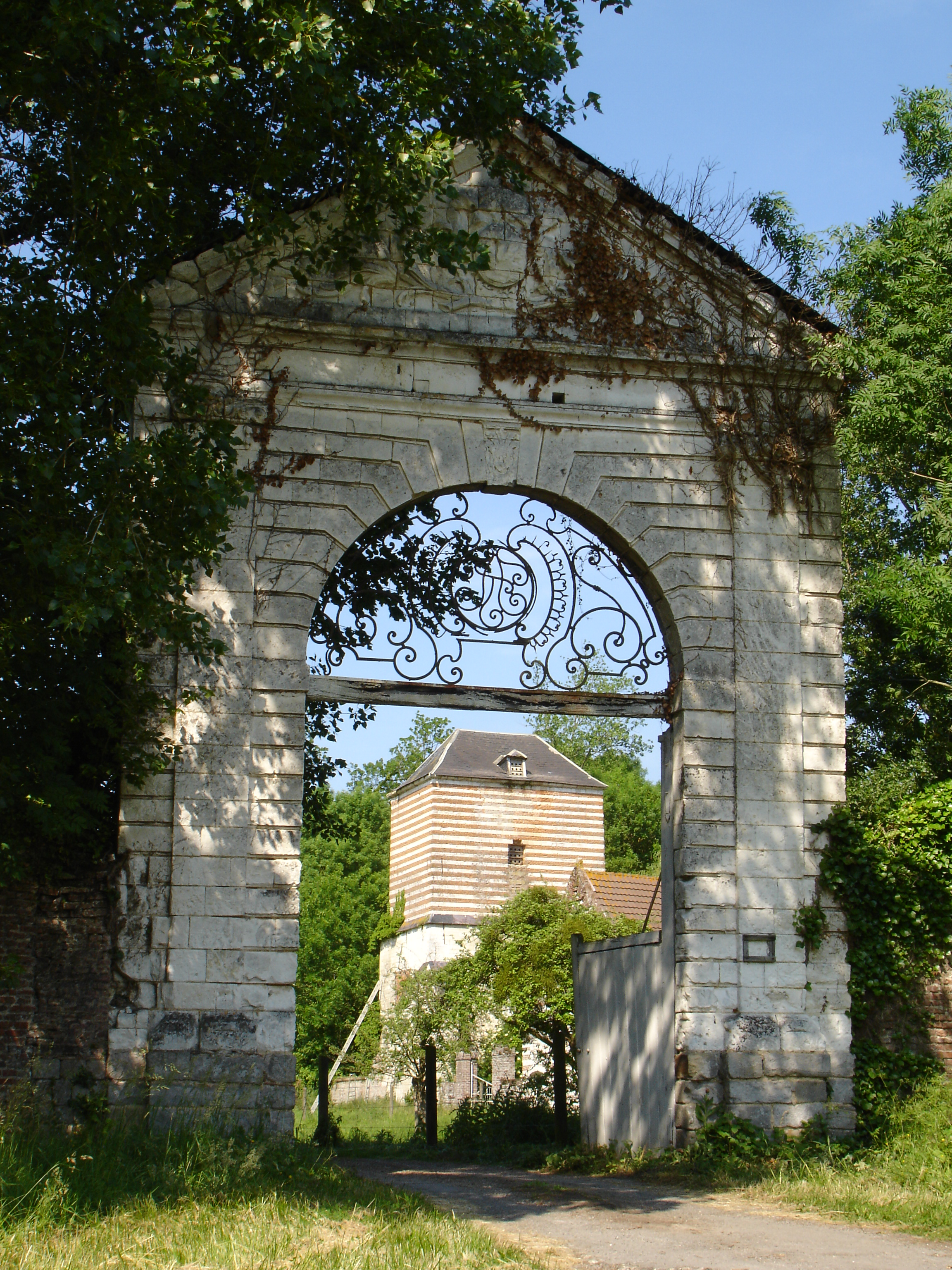 The low door of the old abbey of Dommartin